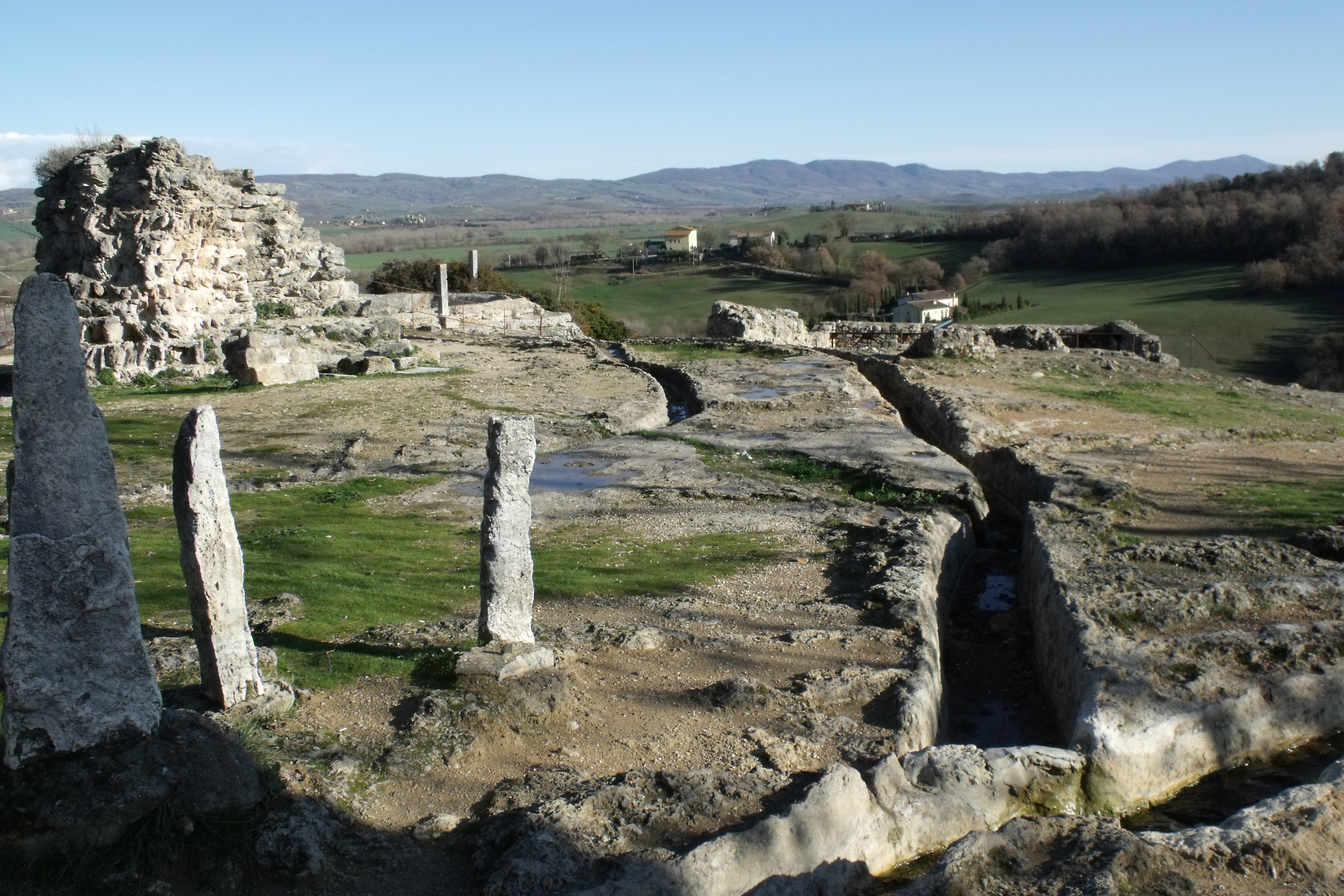 Mill park in Bagno Vignoni, San Quirico d'Orcia, Province of Siena, Tuscany, Italy